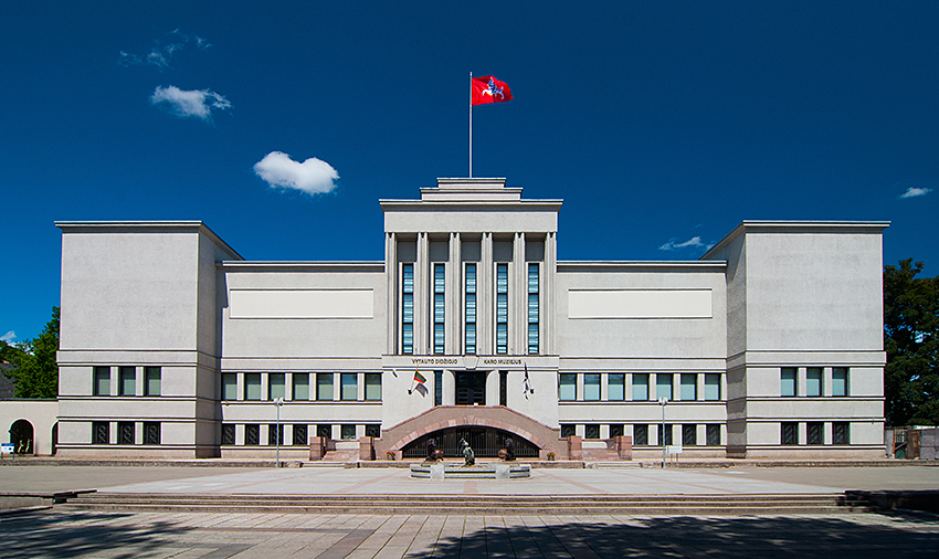 Vytautas the Great war museum (photo by A. Užgalis)